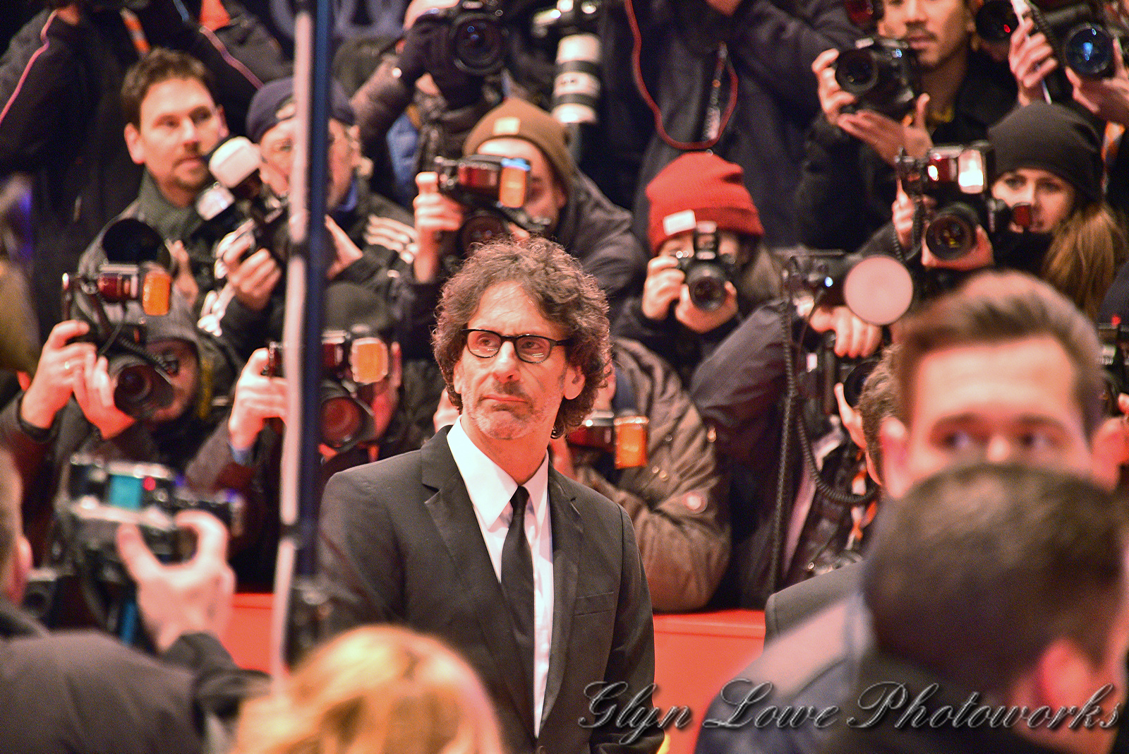 'Hail, Caesar!' Premiere during the 66th Berlinale International Film Festival on February 11, 2016 in Berlin, Germany. February in Berlin is all about film: international stars on the red carpet, enthusiastic fans from around the world – and, above all, some great films. Around 400 films are shown at the Berlinale and tickets are available for everyone, because the Berlinale is the world’s largest public film festival. For ten days, the festival features films that inspire, touch and let you discover new worlds. More Photos At